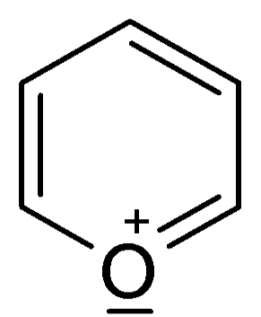 Chemical structure of a pyrylium cation